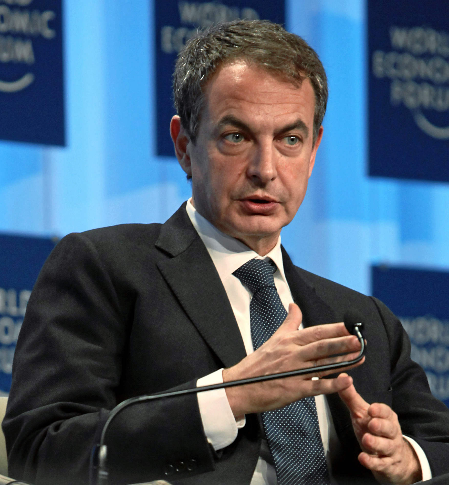 José Luis Rodríguez Zapatero, Prime Minister of Spain is captured during the session 'Rethinking the Eurozone' at the Congress Centre at the Annual Meeting 2010 of the World Economic Forum in Davos, Switzerland, January 28, 2010.